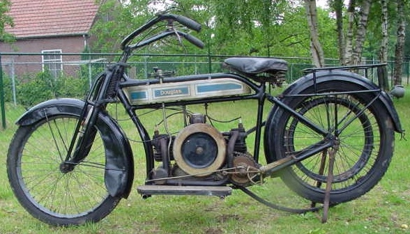 1916 Douglas 596cc 4 hp side valve motorcycle, most propably War Department